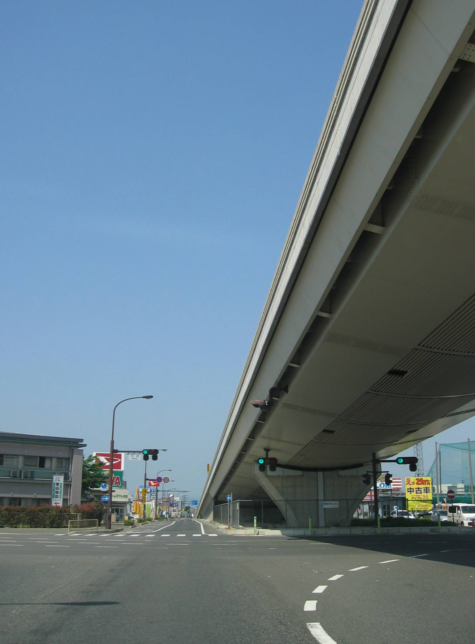 There is crossing of Motai, in Route 18 (Nagano bypass, Nagano-shi, Nagano, Japan).